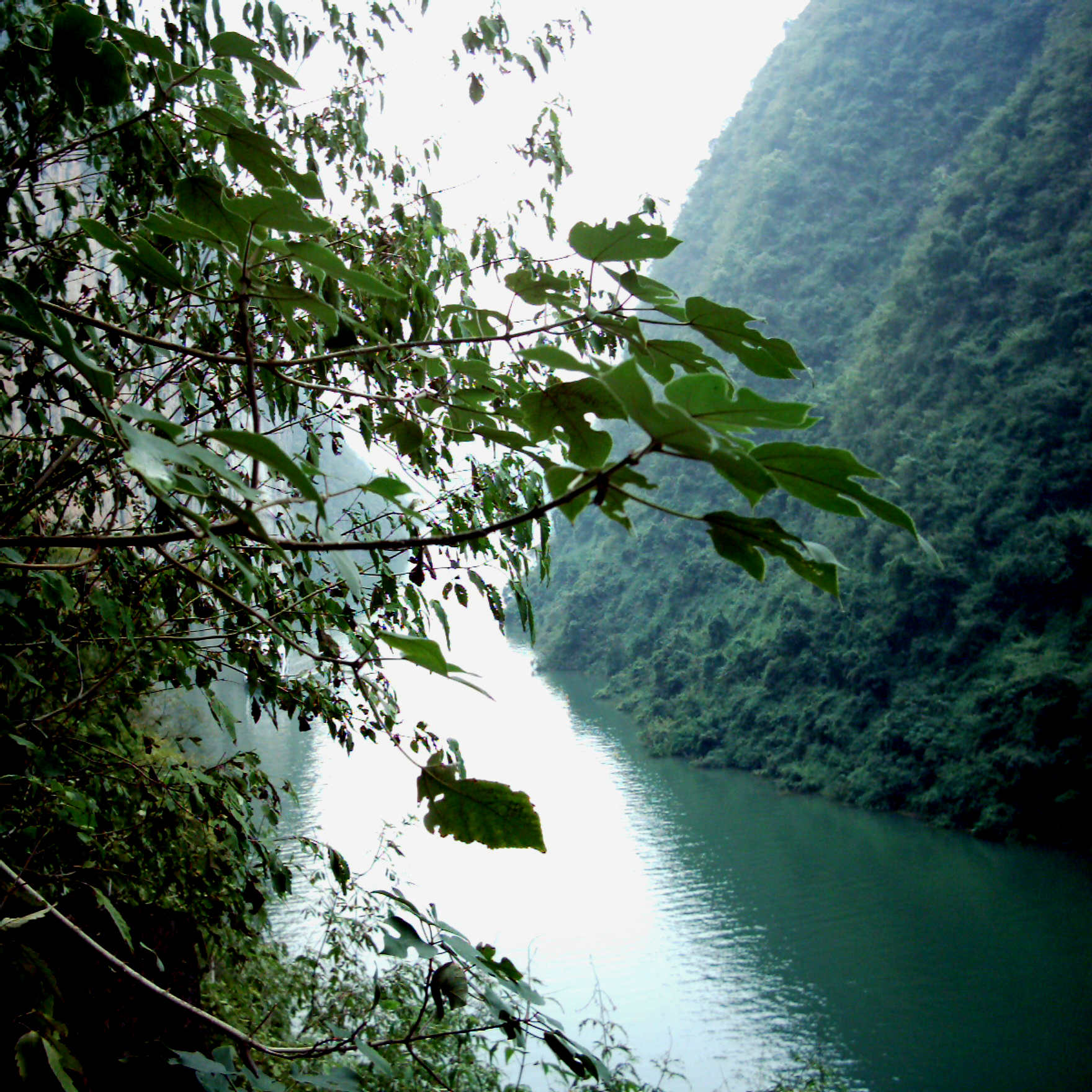 One of the tributaries of Yantze River, named Little Three Gorges